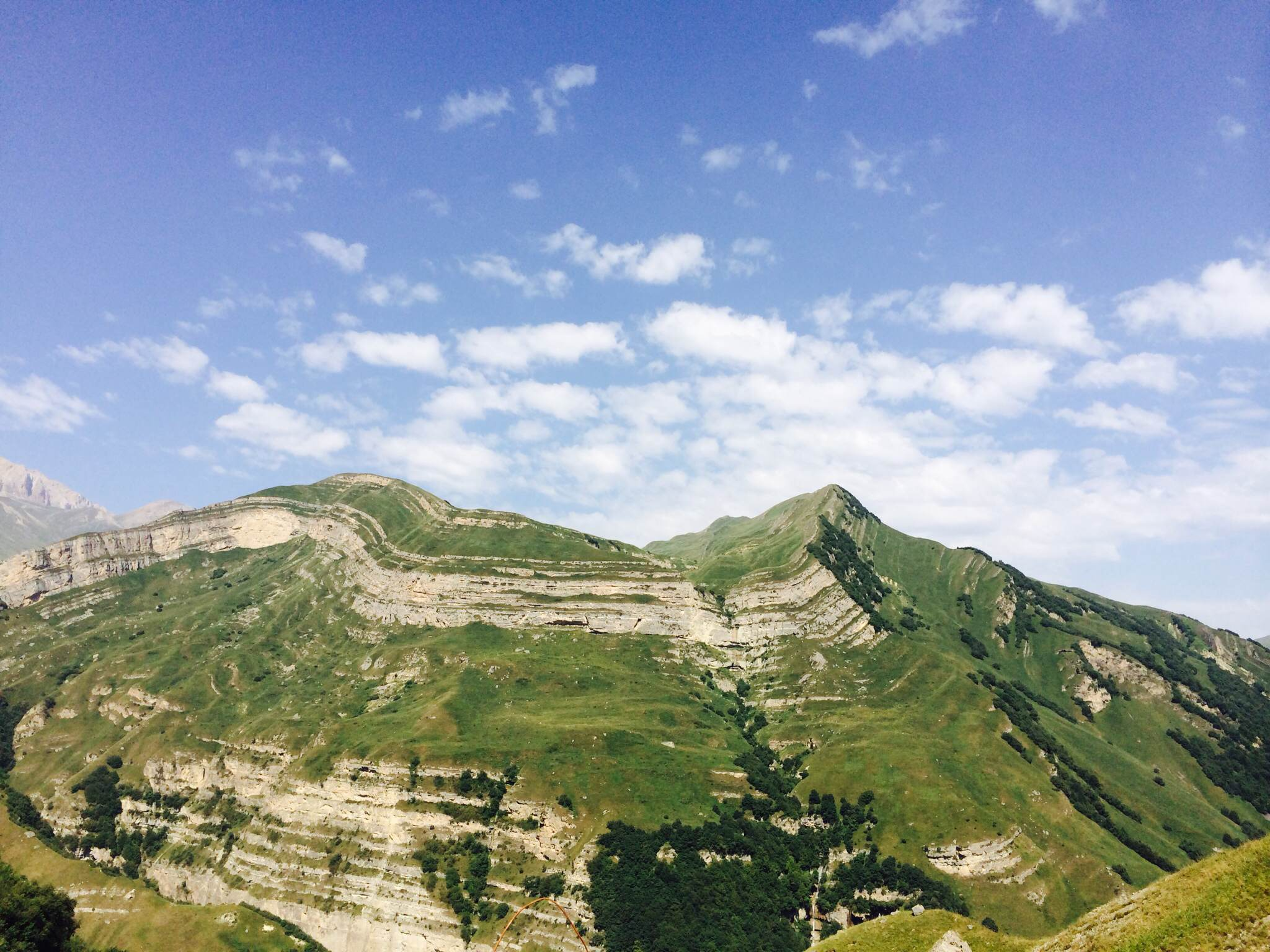 Mountains (Qusar, Shahdag National Park)